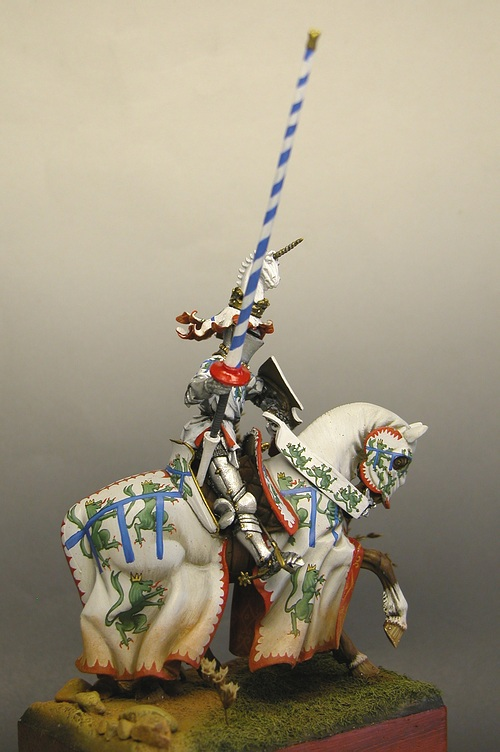 Guillbert of Lannoy (1386 – 1462), the Order of the Golden Fleece